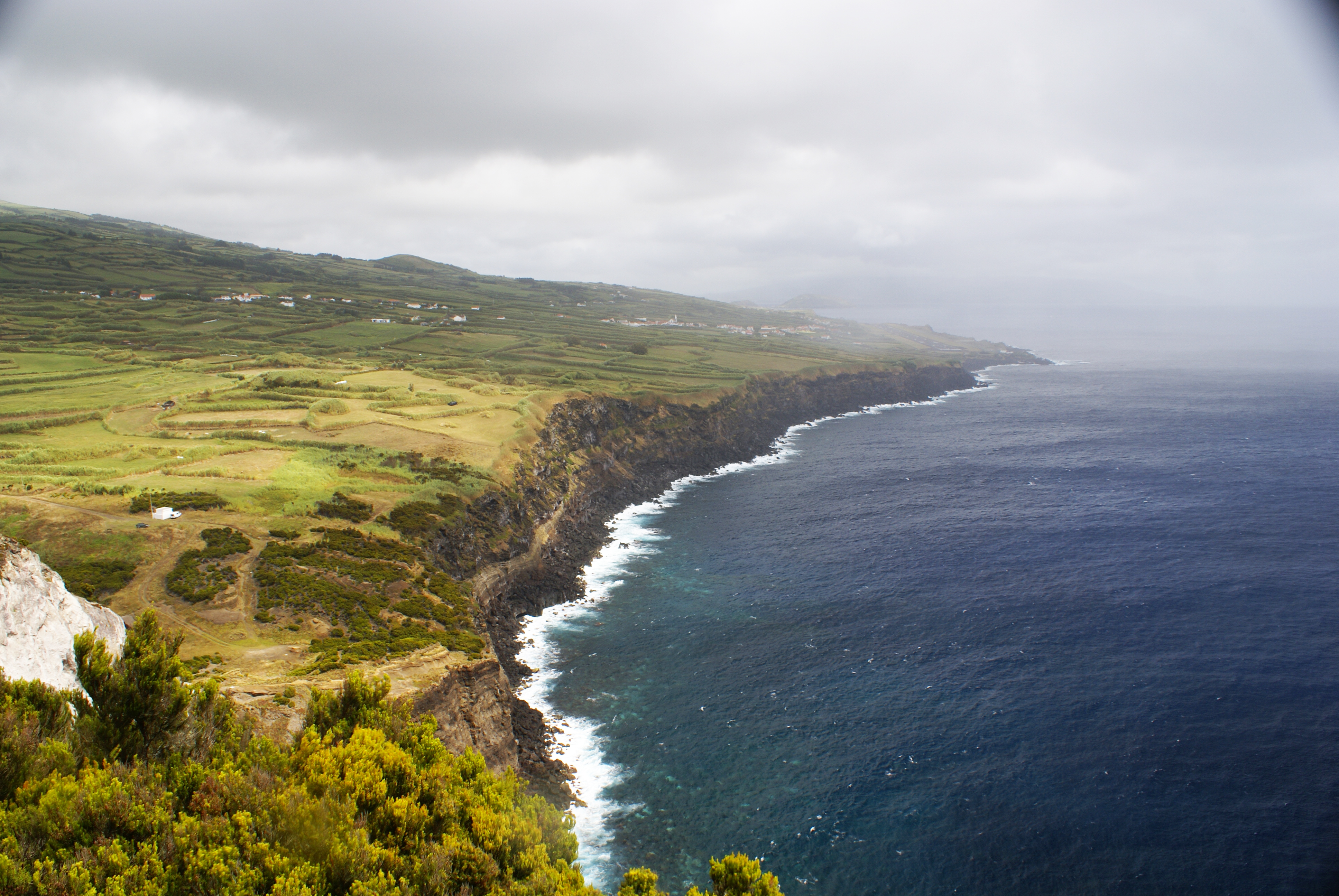 Morro de Castelo Branco, aspectos da costa, Castelo Branco, concelho da Horta, ilha do Faial, Açores, Portugal